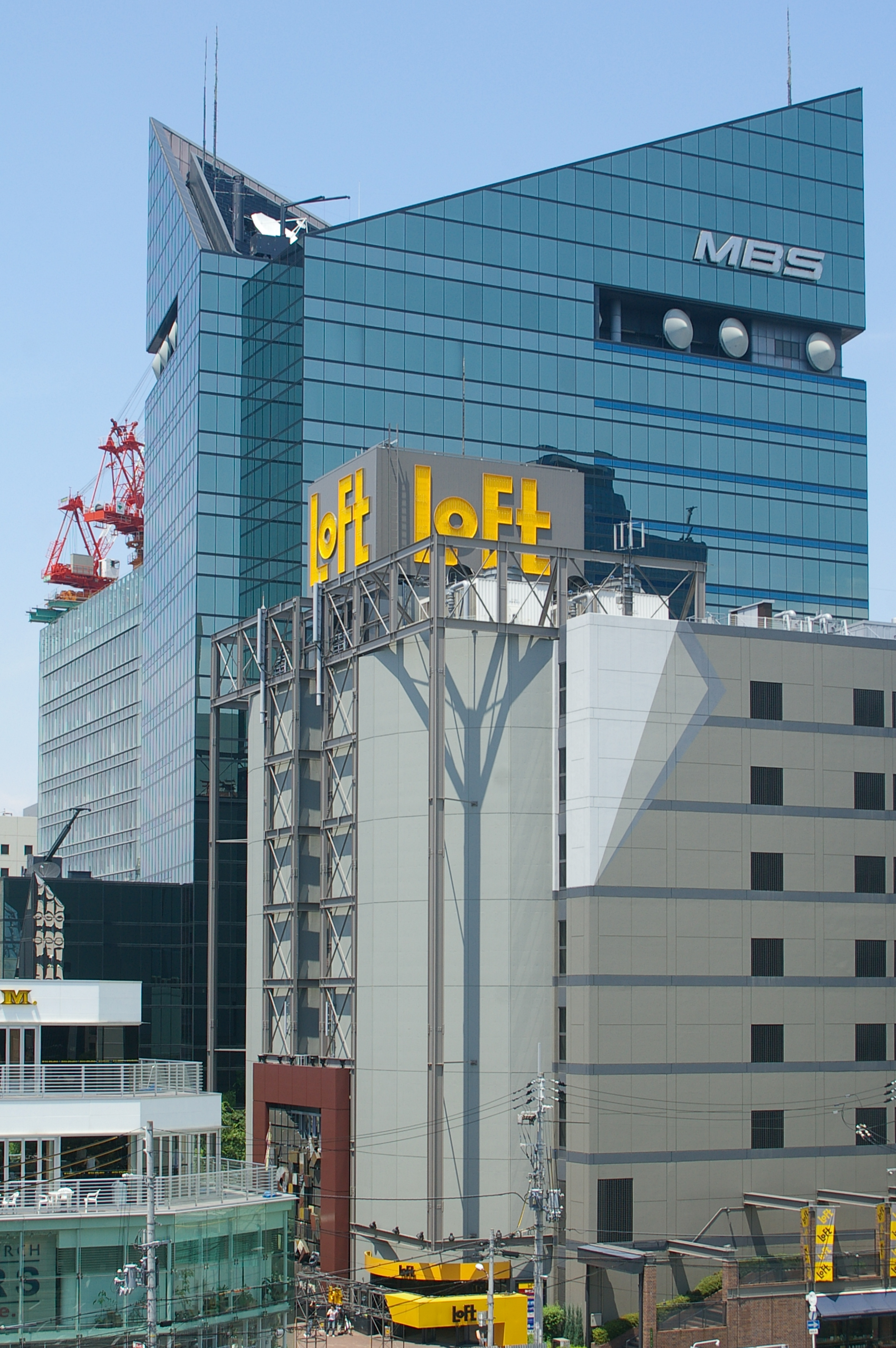 Photograph of JPR Umeda Loft Building and the Mainichi Broadcasting System Headquarters in Kita-ku, Osaka, Osaka Prefecture, Japan.